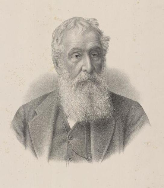 A portrait from the Welsh Portrait Collection at the National Library of Wales. Depicted person: William Watkin Edward Wynne – Welsh politician